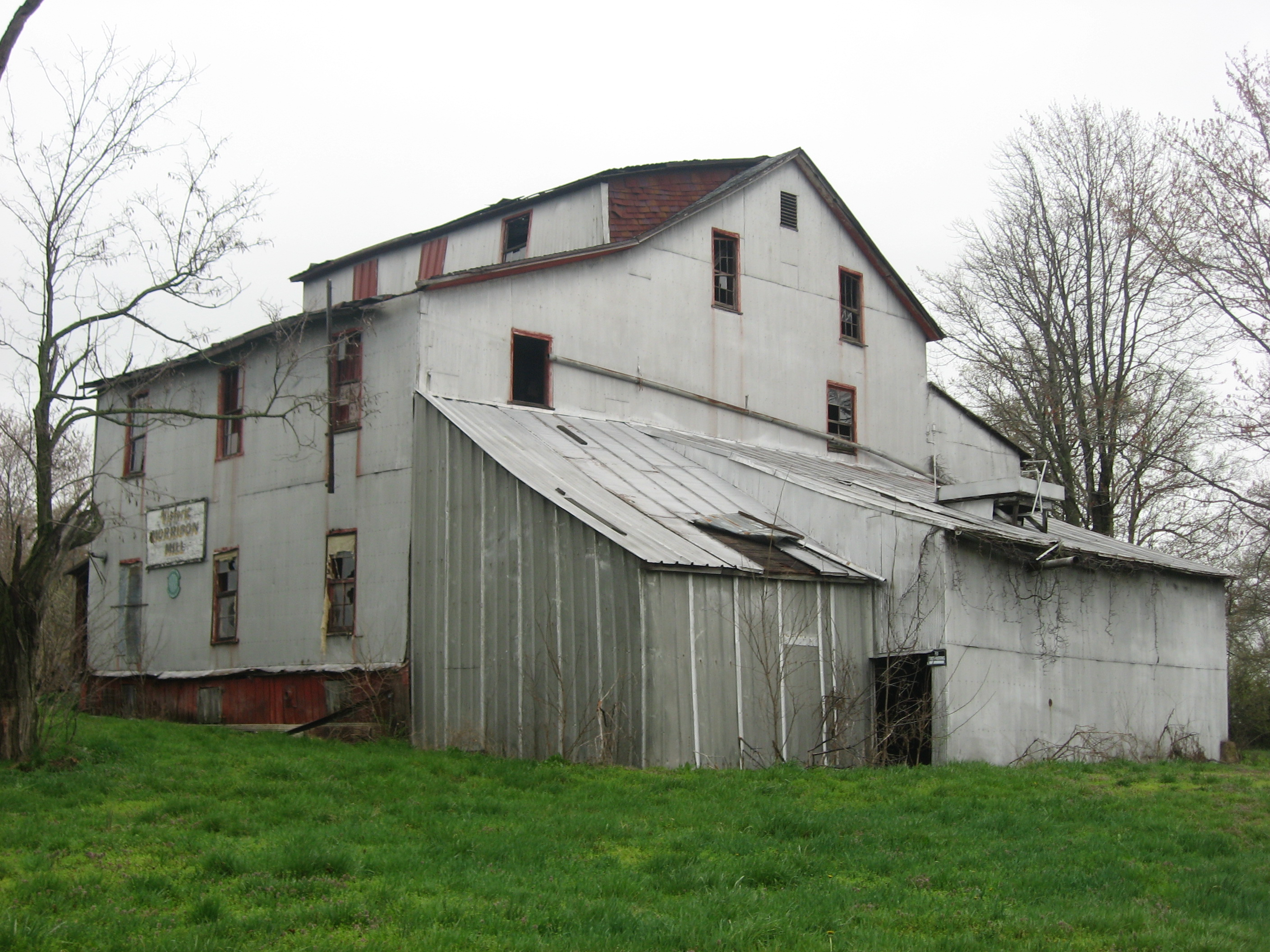 Front and eastern side of the Old Morrison Mill, located at the junction of Second and Mill Streets in Burnt Prairie, Illinois, United States. Built in 1891, it is listed on the National Register of Historic Places.